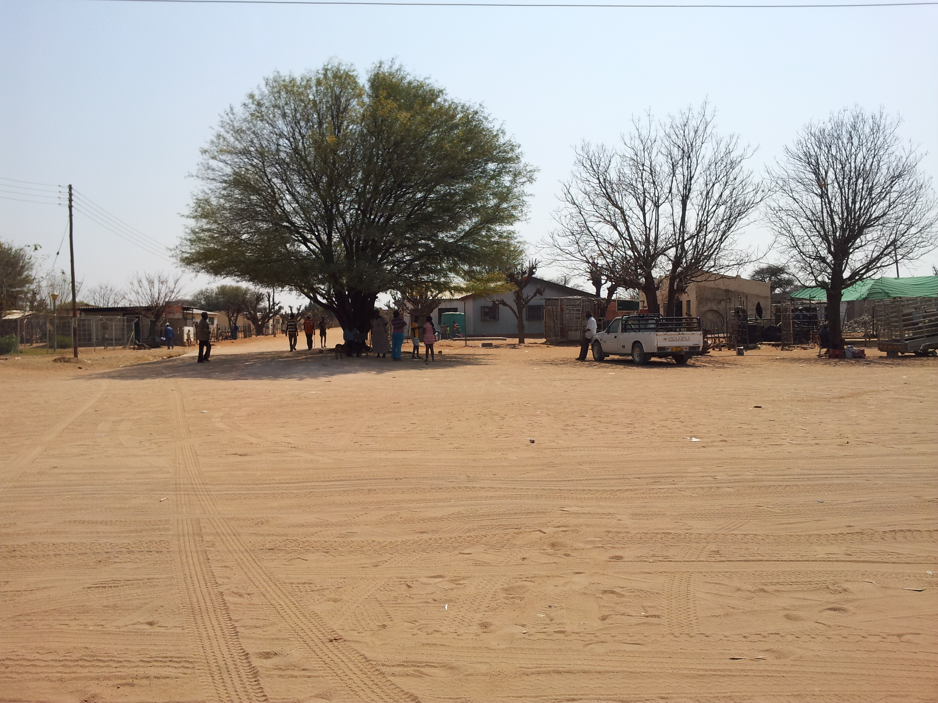 An open place in the centre of the Namibian village of Otjinene